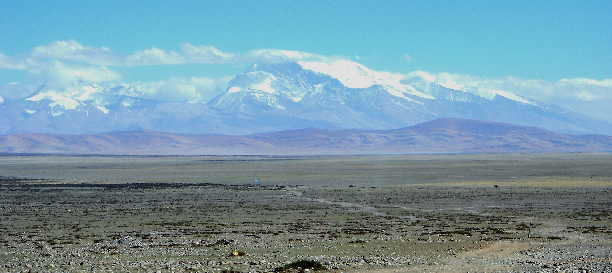 View of the Gurla Mandata mountain from Darchen over the Barkha plain (Tibet Autonomous Region, People's Republic of China).